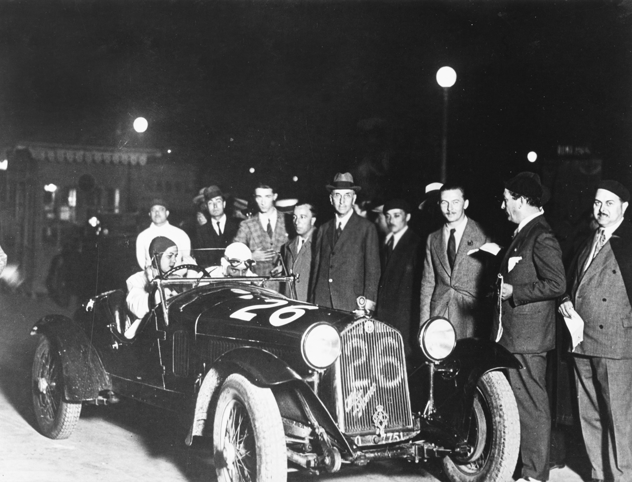 Entry #26 in some Italian race with drivers Anna Maria Peduzzi and possibly Franco Comotti, her husband. License plate looks like "CO 7751" which indicates a car registered in 1933.[1] This looks like the 1933 Alfa Romeo 6C Gran Sport Testa Fissa by Brianza (or Zagato) that she purchased in 1933. One historian claims this is at the Principessa Piemonte race in Napli on 8 Octobre 1933.[2] where she had entry #26 and won her class, but was 9th overall.